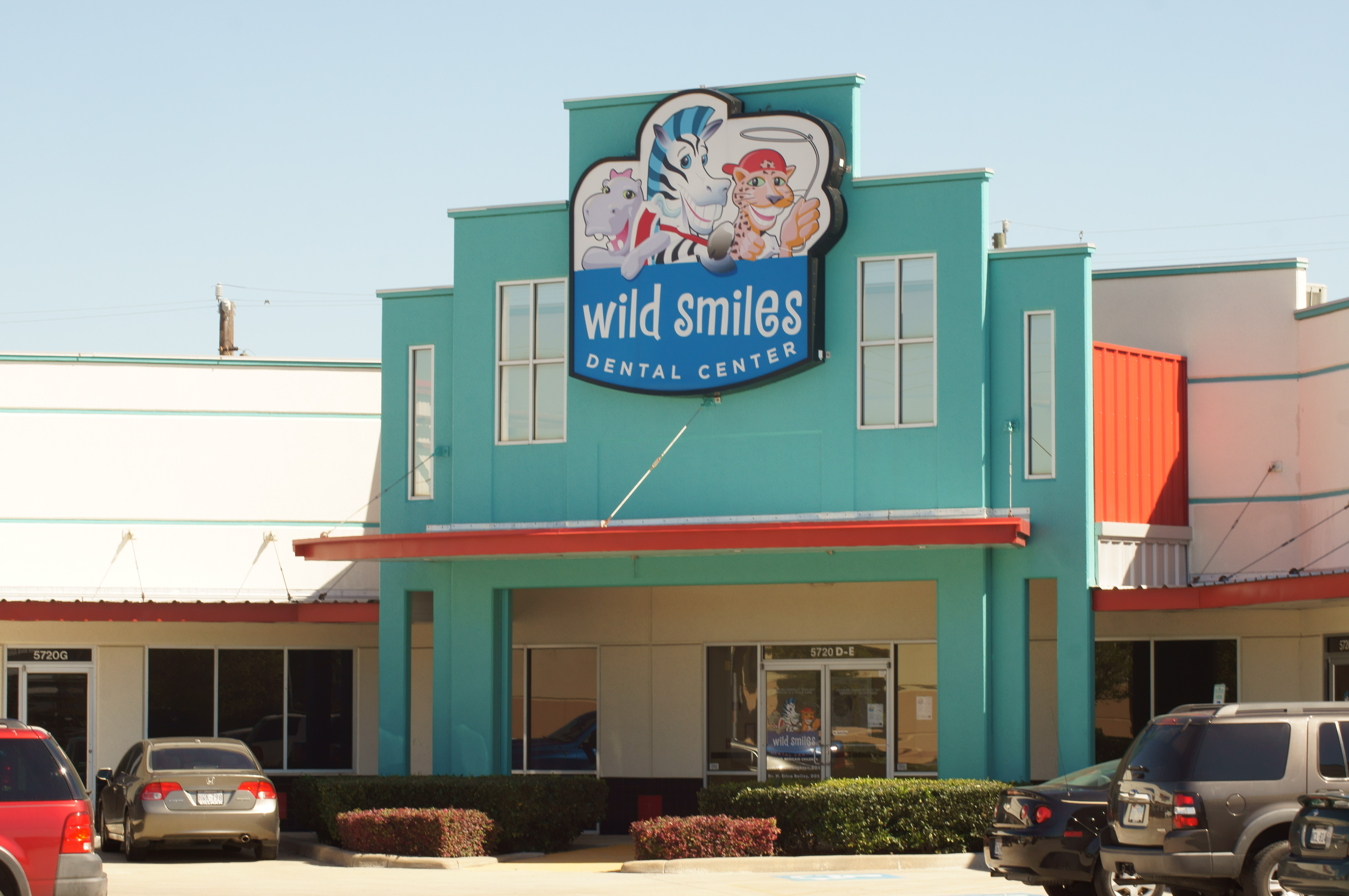 Wild Smiles Dental Center, a Small Smiles Dental Centers dental clinic in Houston. - 5720-D Bellaire Blvd., Houston, TX 77081